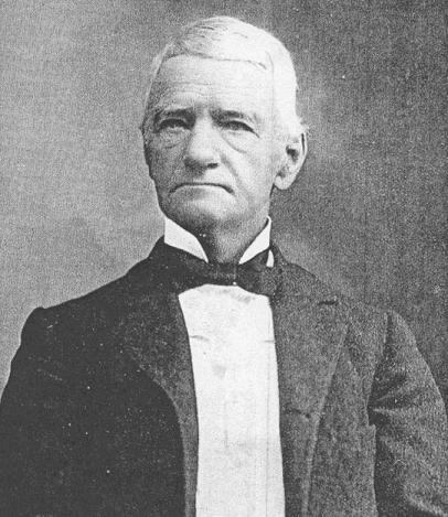 John A. Griswold, Congressman from New York